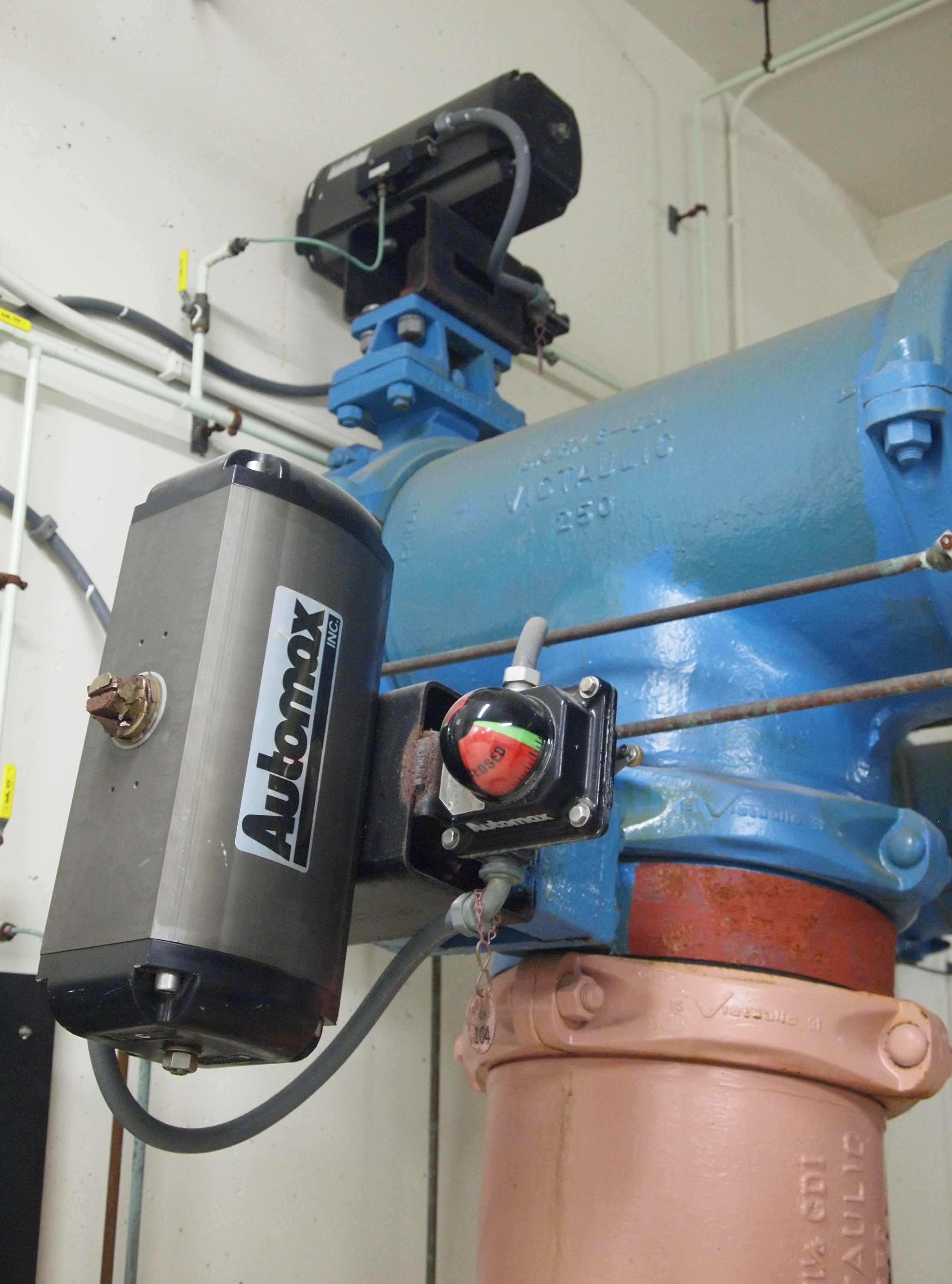 Two pneumatic rack & pinion actuators (AutoMax SuperNova) are used to control two valves for this large water pipe. A control signal line comes to the indicator box (red ball) that shows the current position of the valve. The signal line out of another indicator box of the top actuator (hidden from view) can be seen to connect to the solenoid value (small black box attached to the back of the top actuator) which is used as the pilot for the actuator. The solenoid valve controls the air pressure coming from the input air line (small green tube). The output air from the solenoid valve is fed to the actuator's chamber, increasing the pressure . The pressure in the actuator's chamber pushes the pistons away. While the pistons are moving apart from each other, the attached racks are also moved along the pistons in the opposite directions. The racks are connected to a pinion at the direct opposite teeth of the pinion. When the two racks move, the pinion is turned, causing the attached main valve of the water pipe to turn.